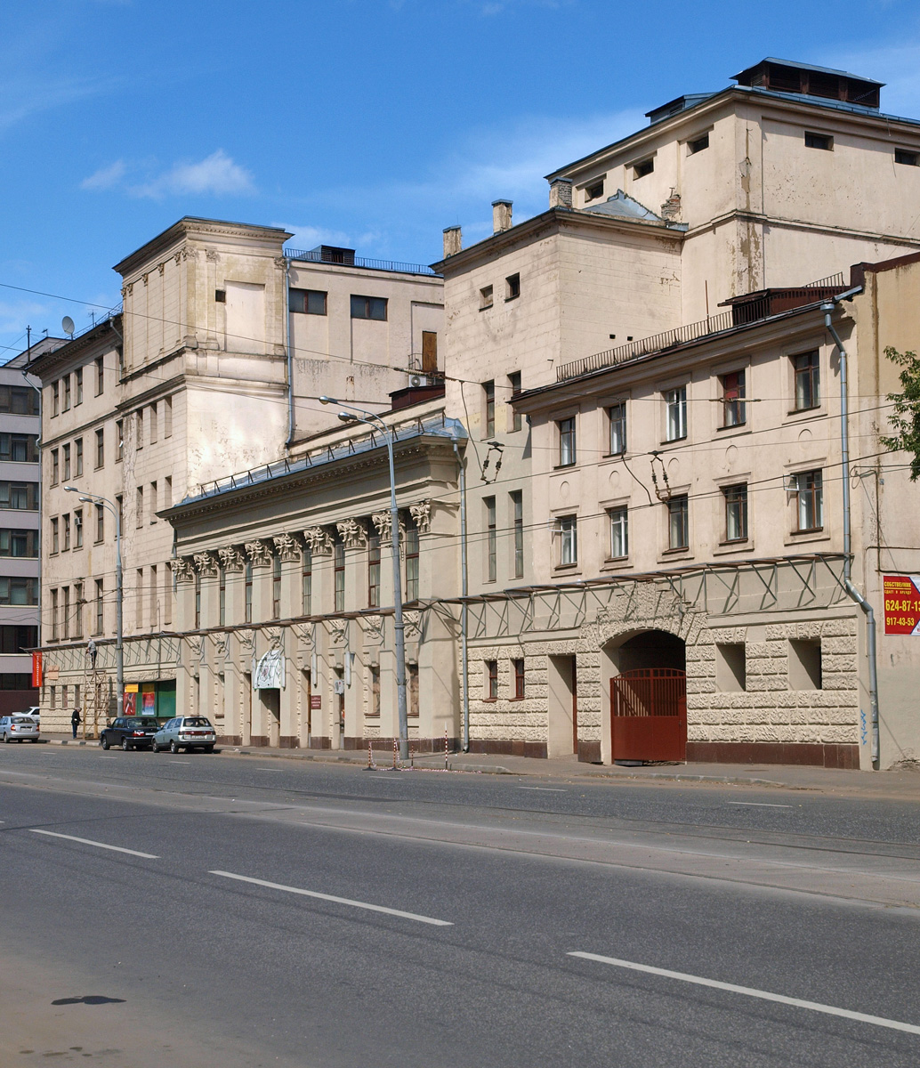 Theatre in Kostomarovsky Lane, Moscow